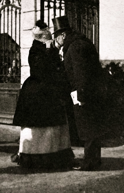 Princess Clémentine of Orléans and his son, Ferdinand I of Bulgaria. In this photo, the princess uses a large hearing aid.